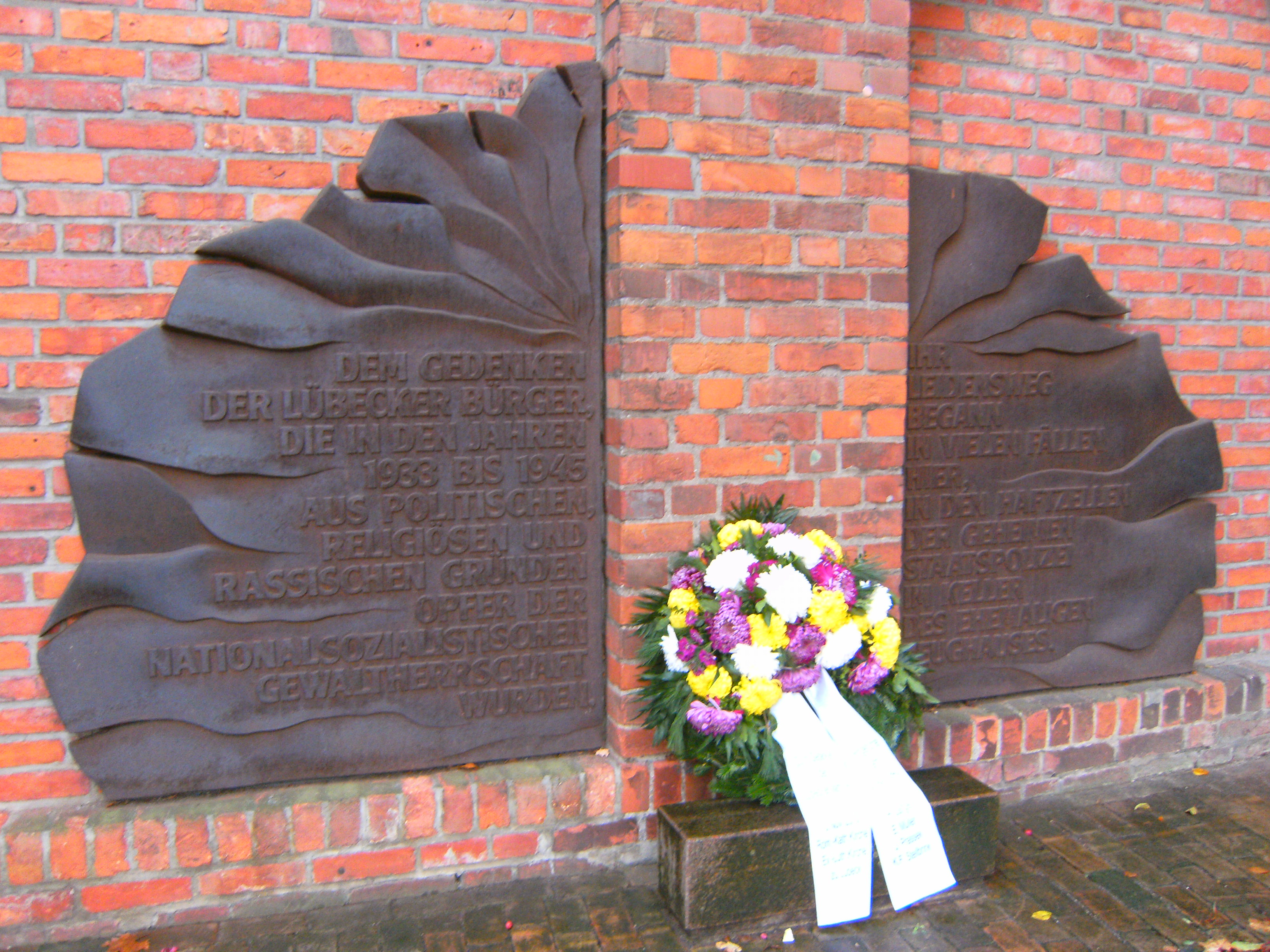 Lübeck: commemorative plaque for the Lübeck citizens on the wall of the the Zeughaus in the street Parade. Laying of the wreath in the year 2015 for the Lübeck martyrs who were guillotined on November 13, 1943.